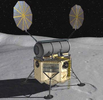 None.